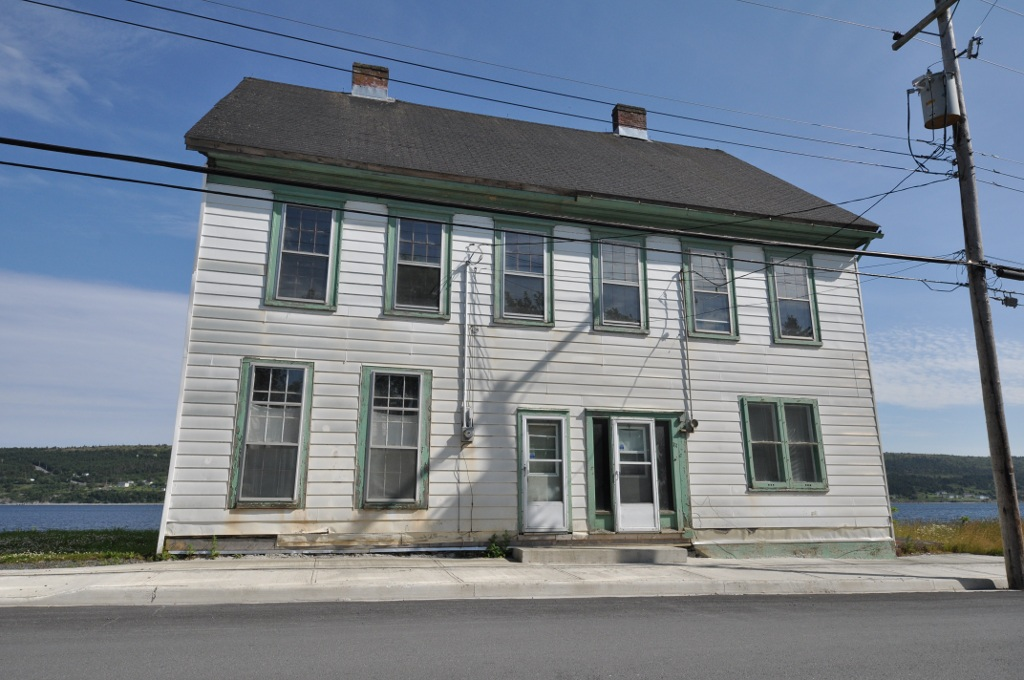 West End Mercantile Establishment, Harbour Grace, Newfoundland.